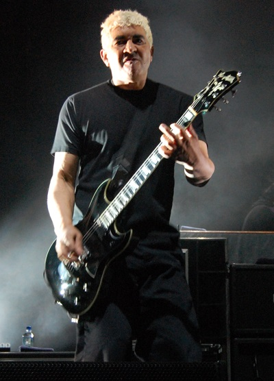 Photographed by: Andrew Burns (Andrewbootlegger), 01/20/2008